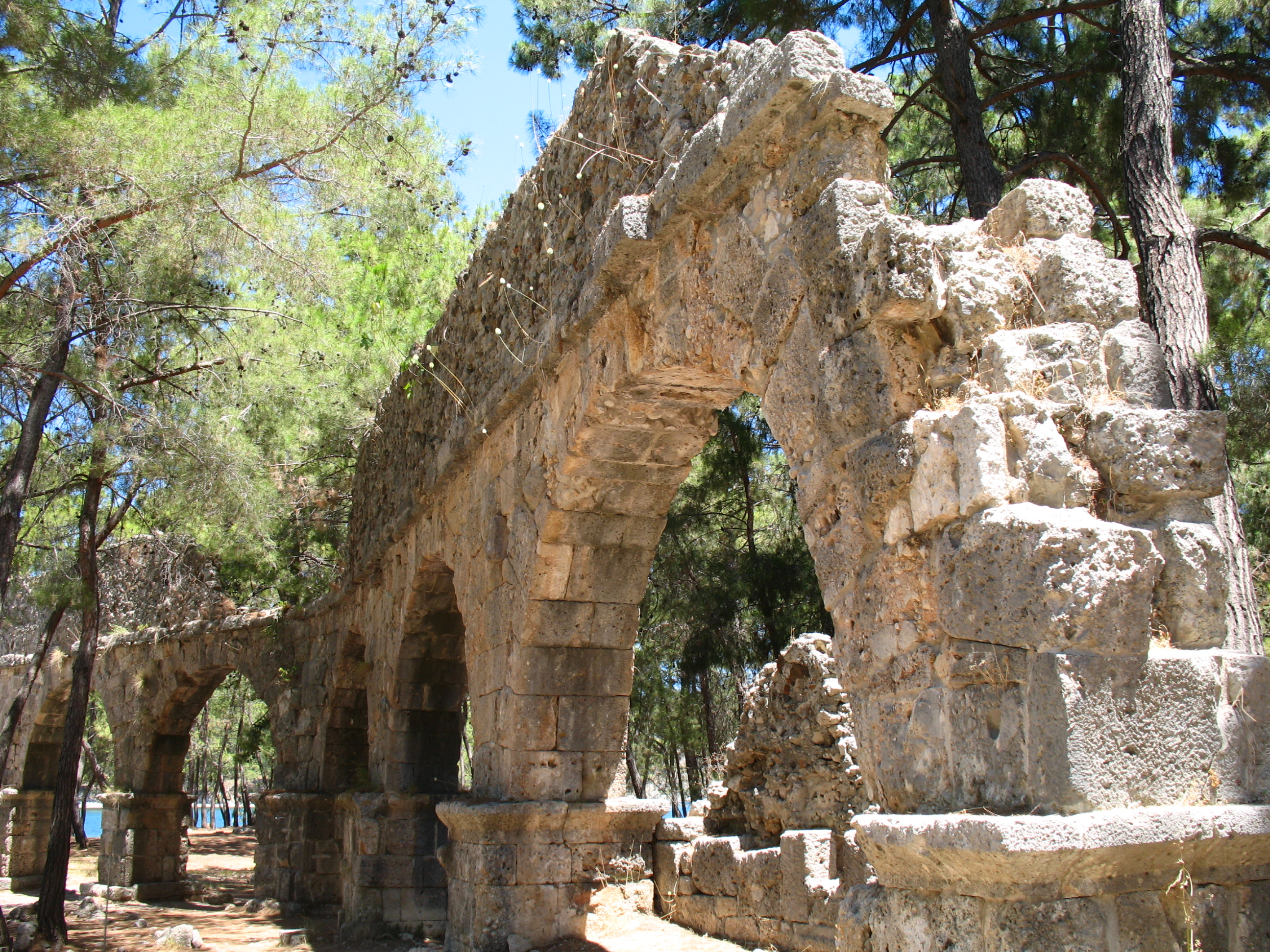 Phaselis, antique town near Kemer, Turkey